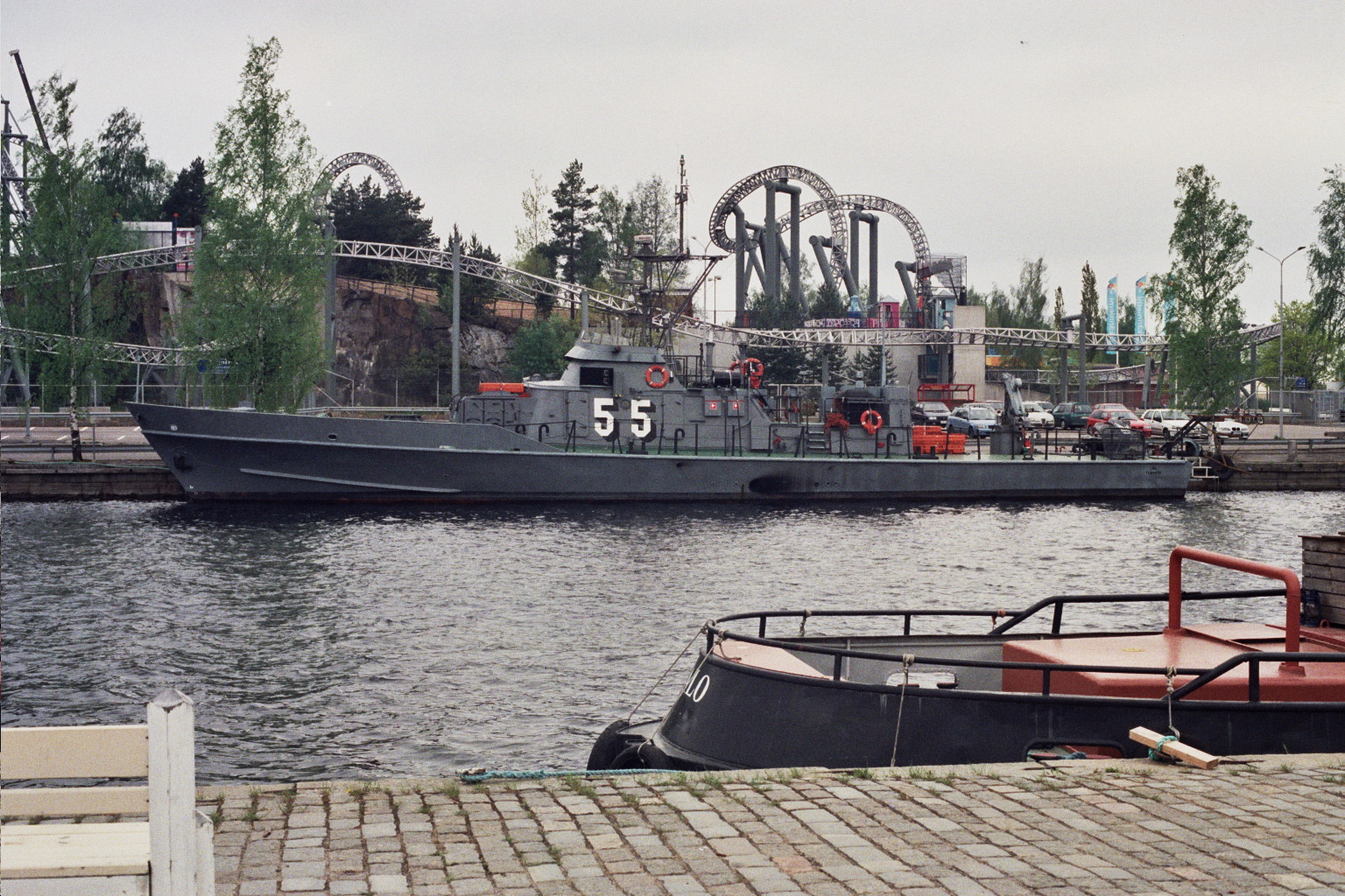 Vartiovene 55, Patrol Boat 55, in Mustalahti Harbour, Tampere, Finland. Formerly known as Röyttä, the R class patrol boat served Finnish Navy from 1959 to the late 1990s. Nowadays it's in private use. (Seen behind the vessel is a part of the Särkänniemi amusement park.)